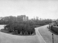 View of the university library of Lund at Helgonabacken in Lund